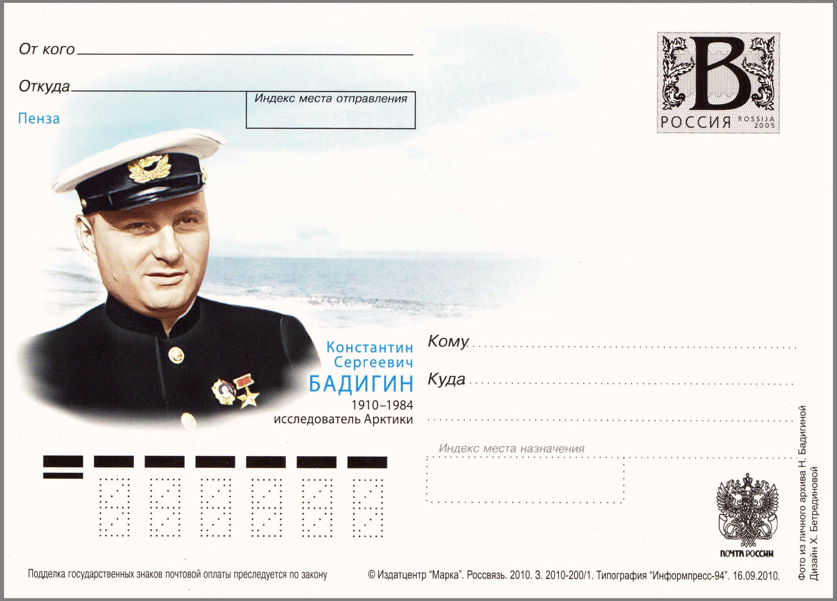 100th birth anniversary of Konstantin Badygin (1910–1984), a Soviet sea captain, a naval officer, an explorer of Arctic, a scientist and a writer.The postal card with imprinted definitive non-denominated stamp “Letter B”, Russia, 16 September 2010, Catalogue of PTC Marka No 160о-2010/2010-200/1. Coated paper. Offset printing. Size of the postal card: 105×148 mm. Print run: 10,000.The photo portrait of Konstantin Badygin from the personal archive of N. Badygina.